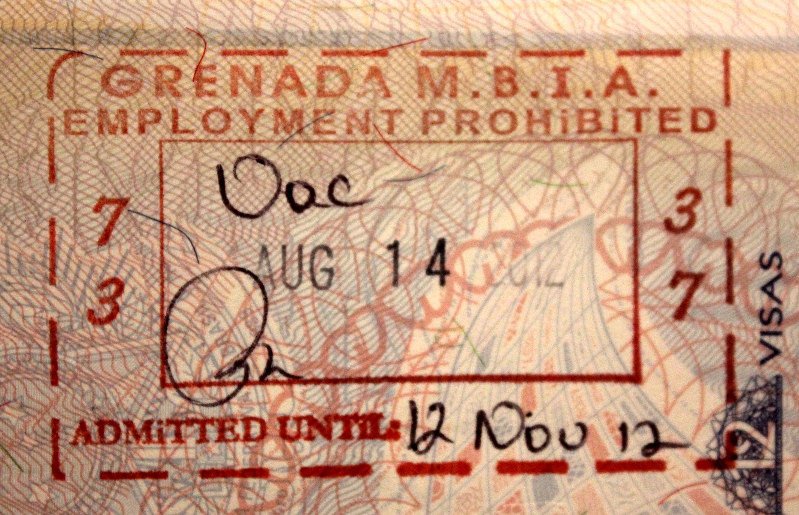 Grenada Entry Stamp - Maurice Bishop International Airport